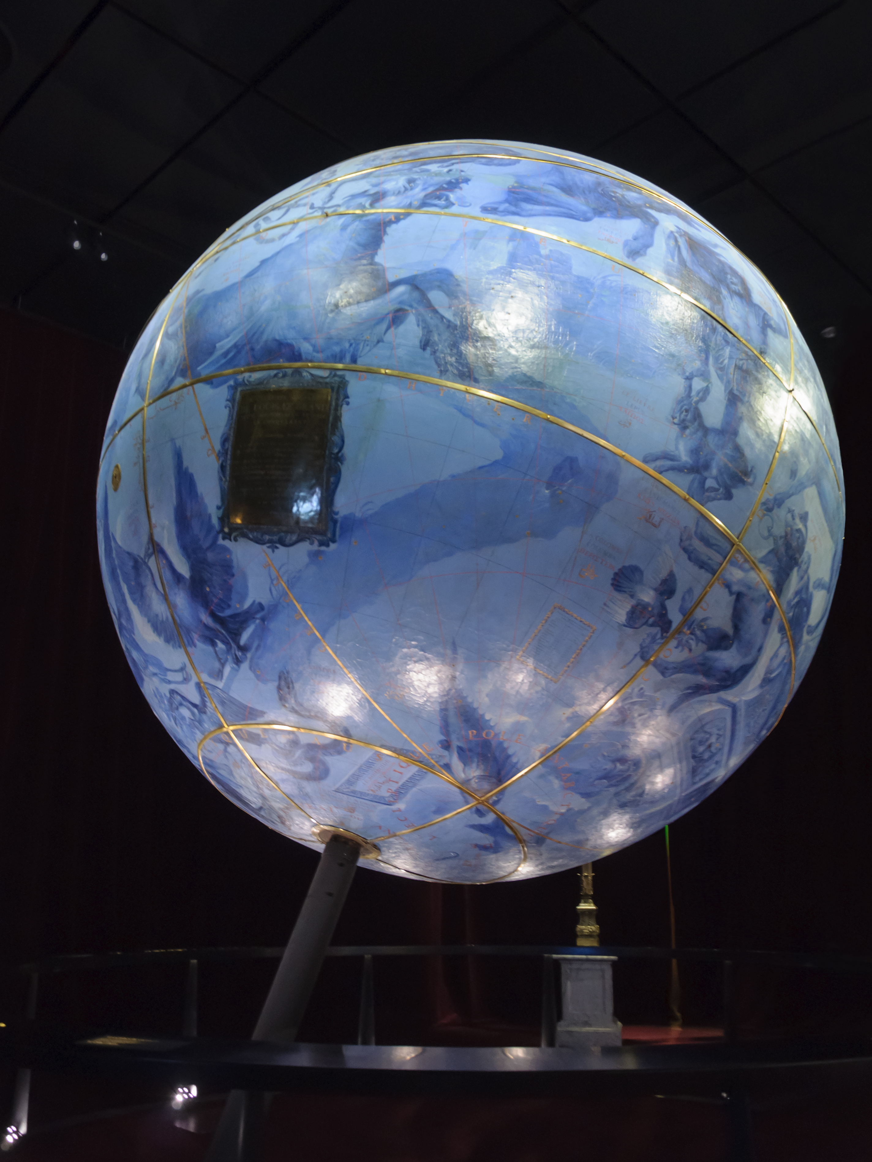 Coronelli Celestial Globe (1681-1683), Bibliothèque nationale de France, François-Mitterrand site, Paris, France.